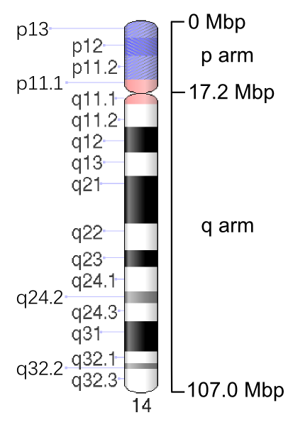 Ideogram of human chromosome 14. G-band, 550 bphs (bands per haploid set). Black and gray: Giemsa positive. Red: Centromere. Light blue: Variable region. Dark blue: Stalk. Mbp: Mega base pairs.